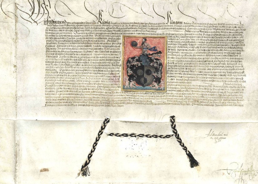 Wappenbrief der Stadt Scheibbs von König Ferdinand I. verliehen im Jahre 1537